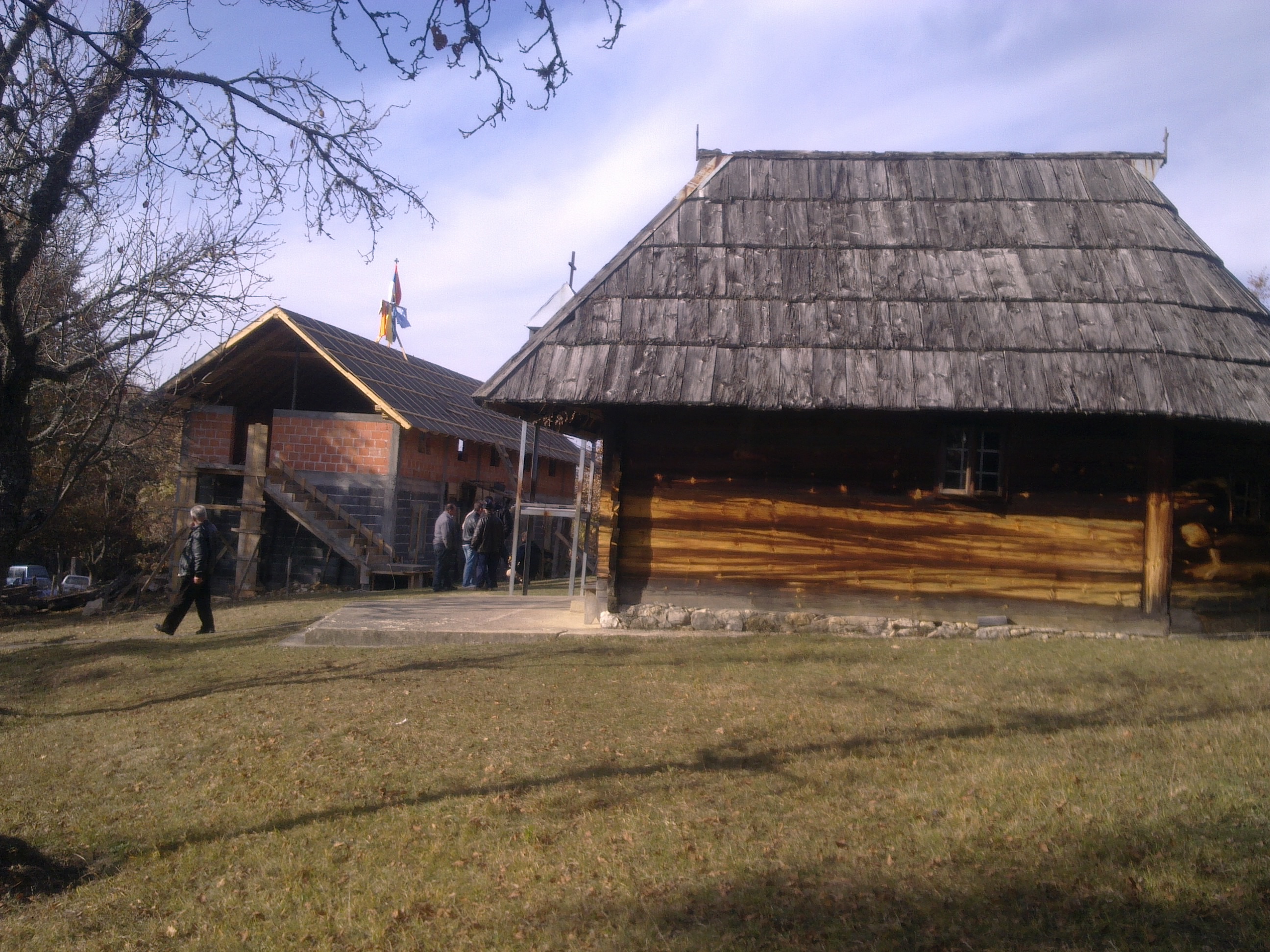 This image was uploaded as part of Trace of Soul 2015.